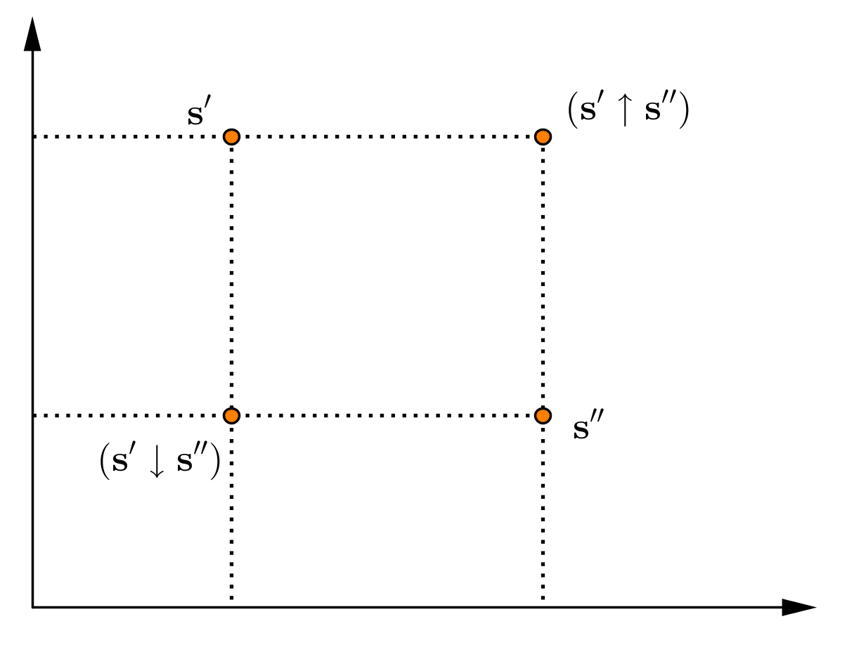 Component-wise maximum and minimum